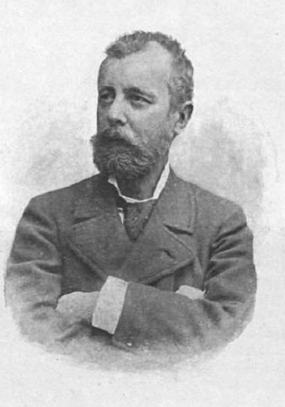 Sándor Endrődi